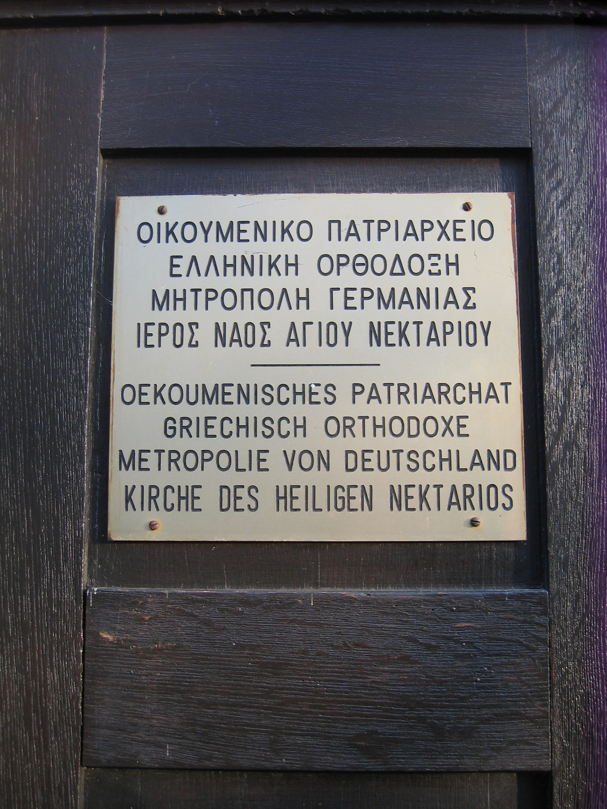 Wolderus chapel (both lutheran and greek-orthodox) next to Herford cathedral in Herford, District of Herford, North Rhine-Westphalia, Germany.